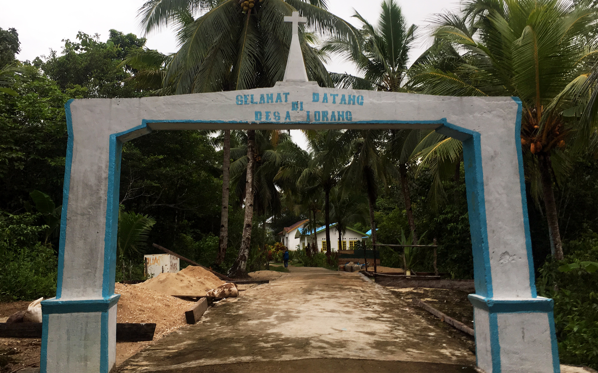 Welcome sign before entering Lorang Village, Aru Tengah, Kepulauan Aru, Maluku, Indonesia